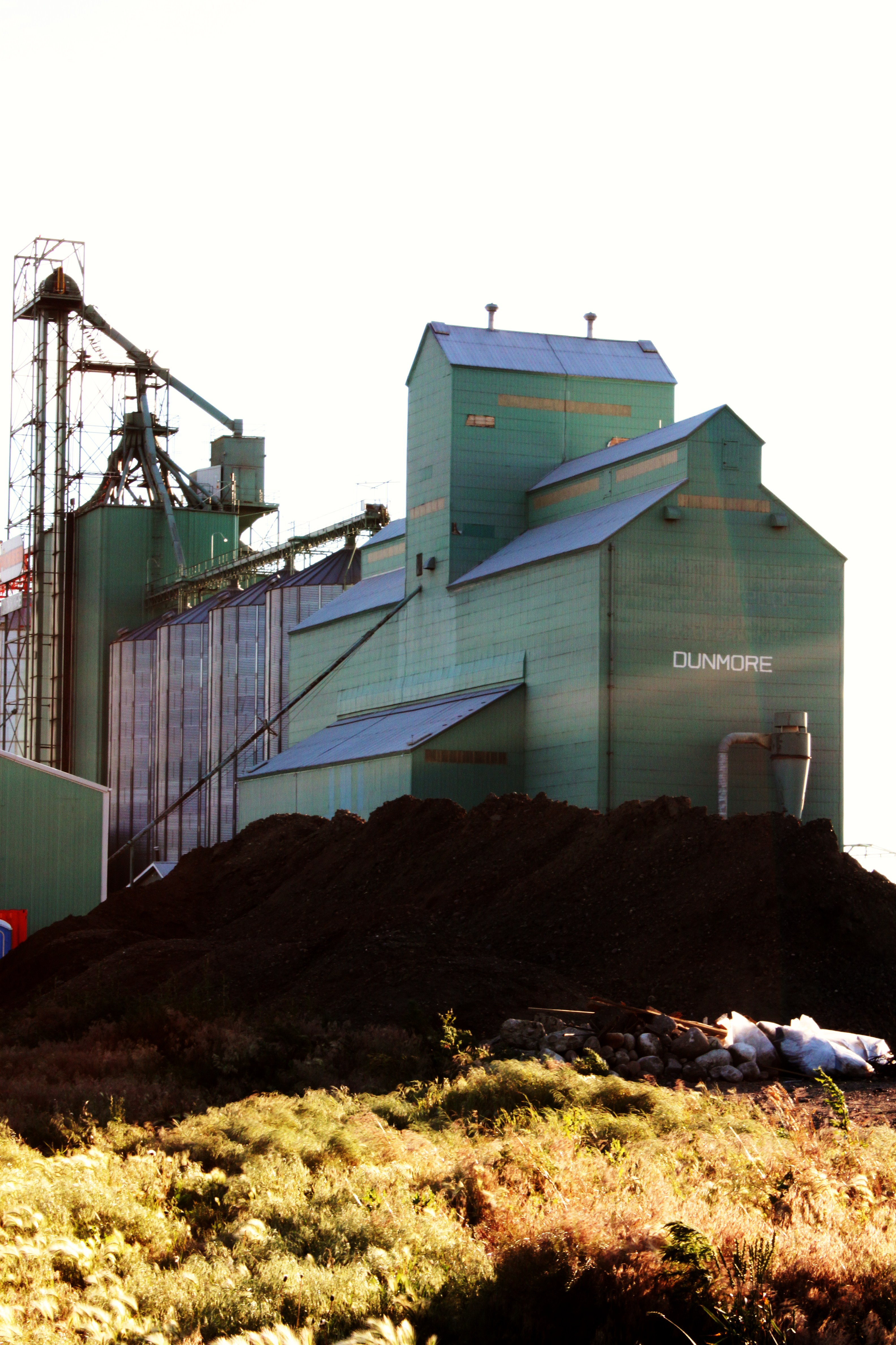 Viterra Elevator in Dunmore, Alberta